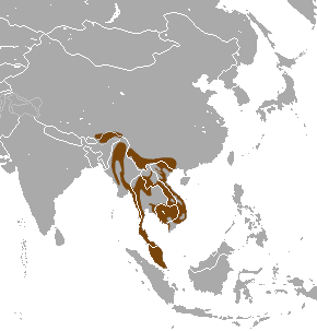 Large-spotted Civet (Viverra megaspila) range